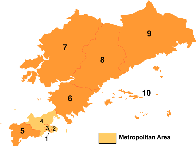 Map of Dalian in Liaoning province